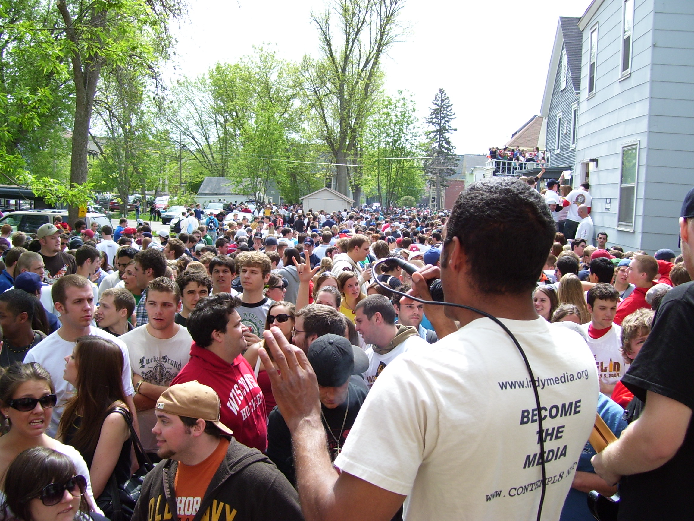 A slam poem is recited by Toussaint Morrison of the Minneapolis band The Blend for a crowd at the 2007 Mifflin Street Block Party.